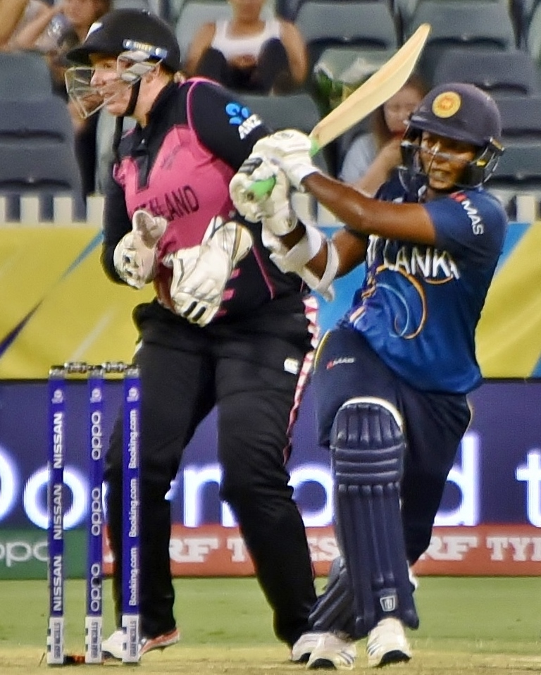 Hasini Perera batting for Sri Lanka against New Zealand during their 2020 ICC Women's T20 World Cup match at the WACA Ground in Perth, Australia. The wicket-keeper is Rachel Priest.